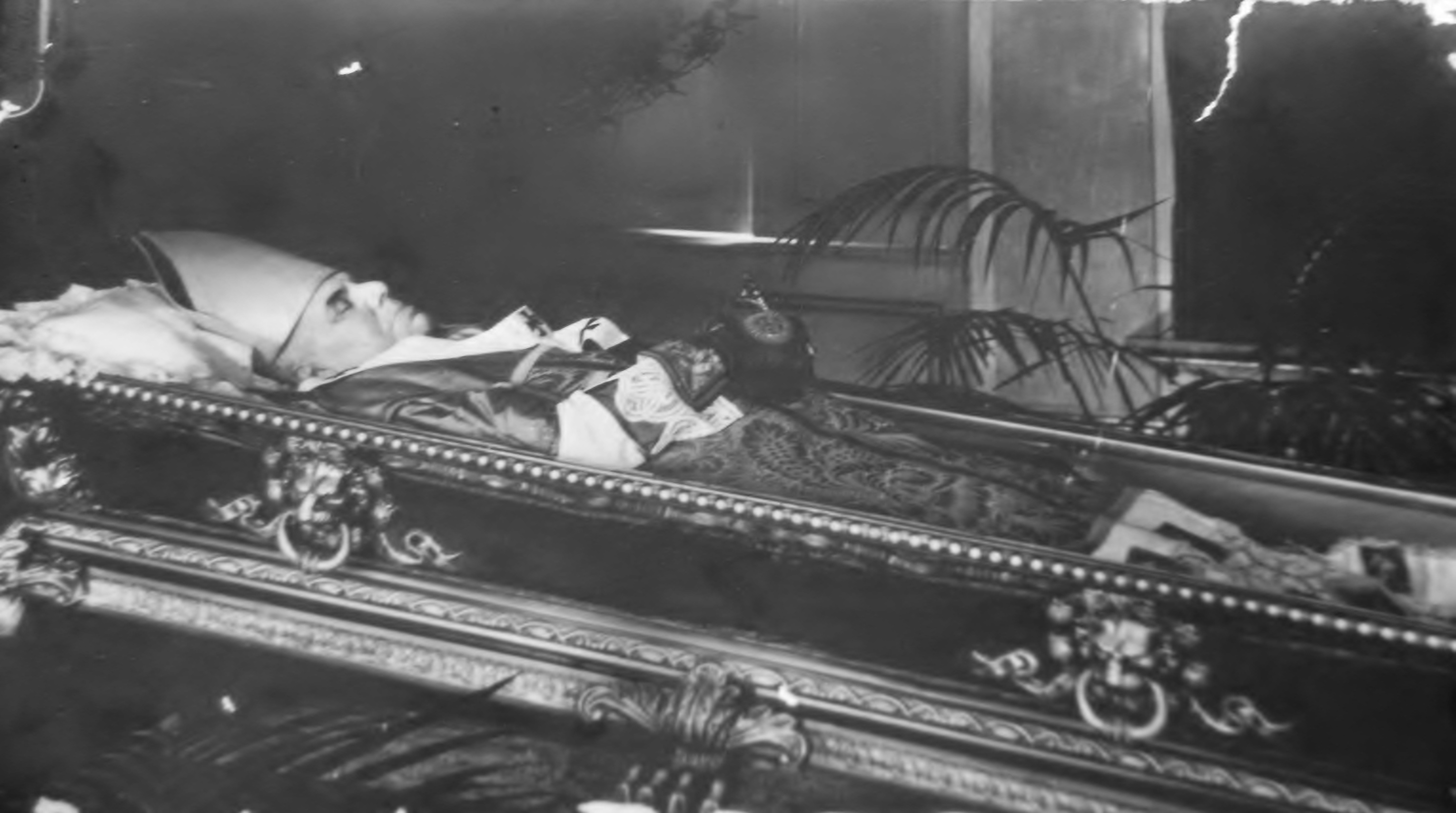 Bishop of Olomouc Antonín Cyril Stojan (Czech Republic).